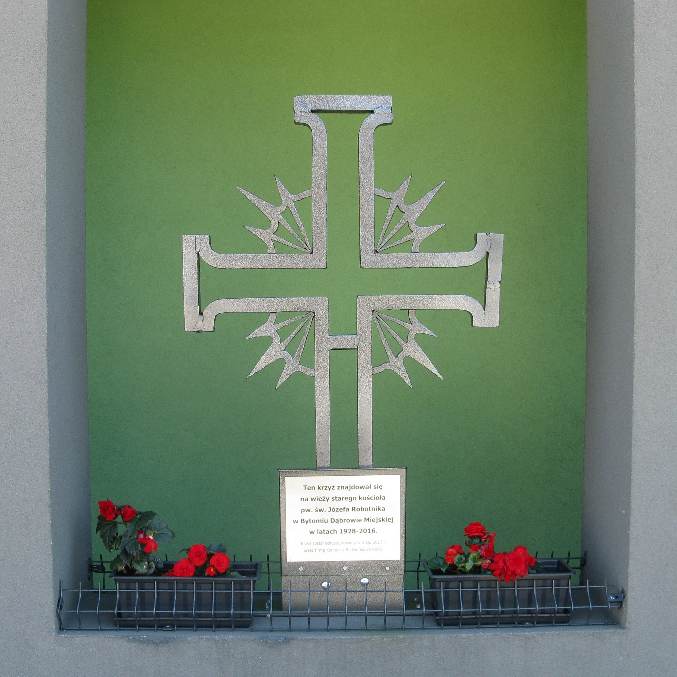 Bytom Joseph church cross